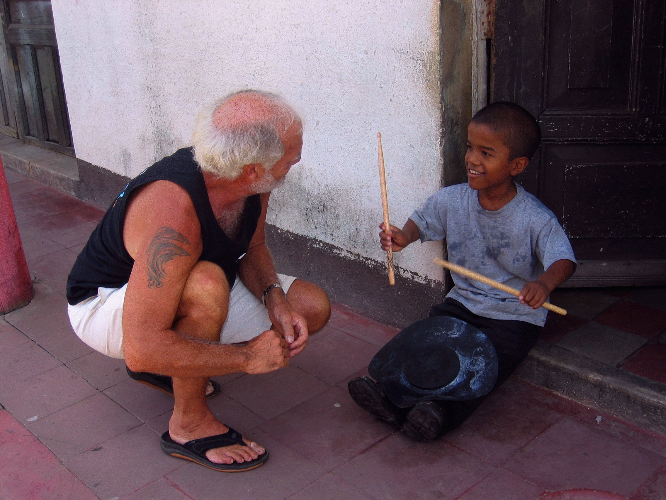 Bill Kreutzmann instructing a student.